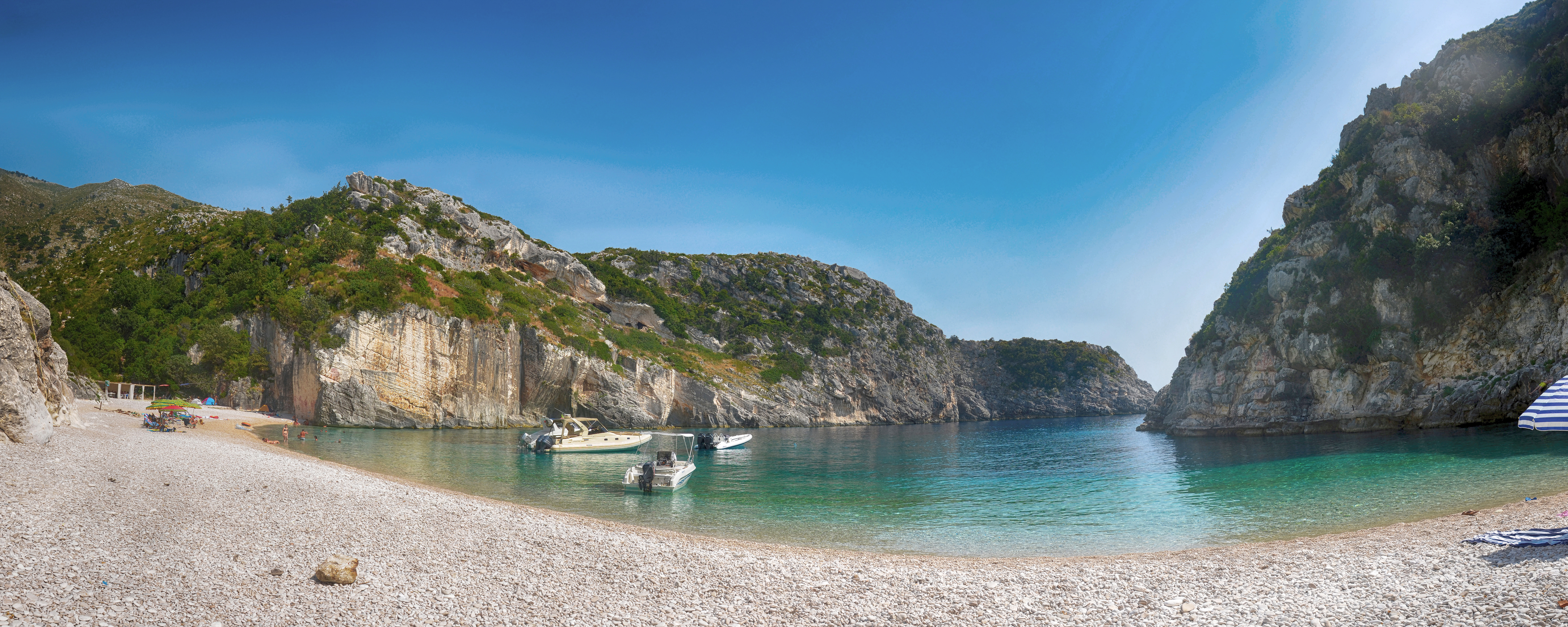 The Grama Bay in Albania